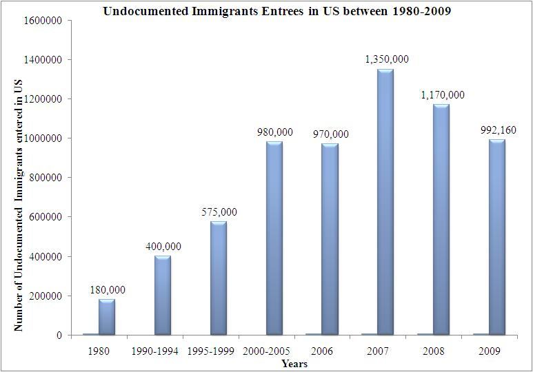 The Department of Homeland Security (DHS) estimates. based on